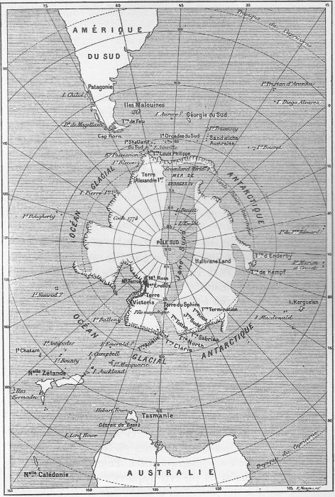 An illustration from Jules Verne's novel "The Sphinx of the Ice Fields" (or "An Antarctic Mystery", 1895) drawn by George Roux.